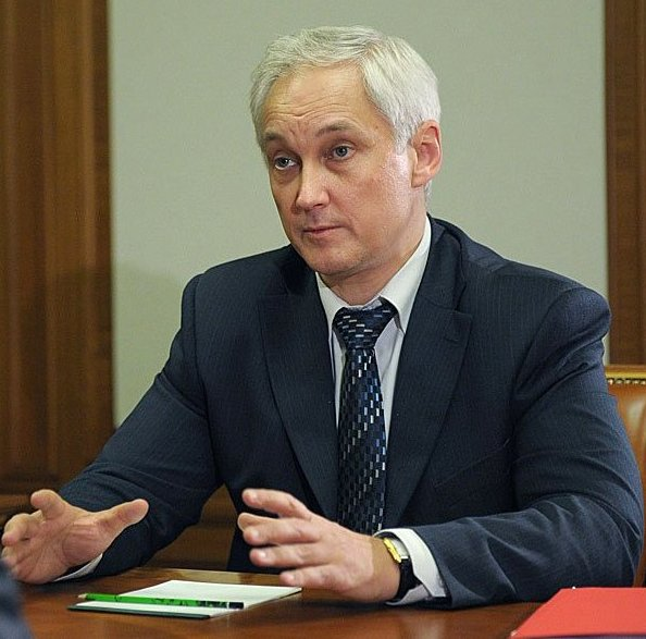 Minister of Economic Development of the Russian Federation Andrey Belousov.